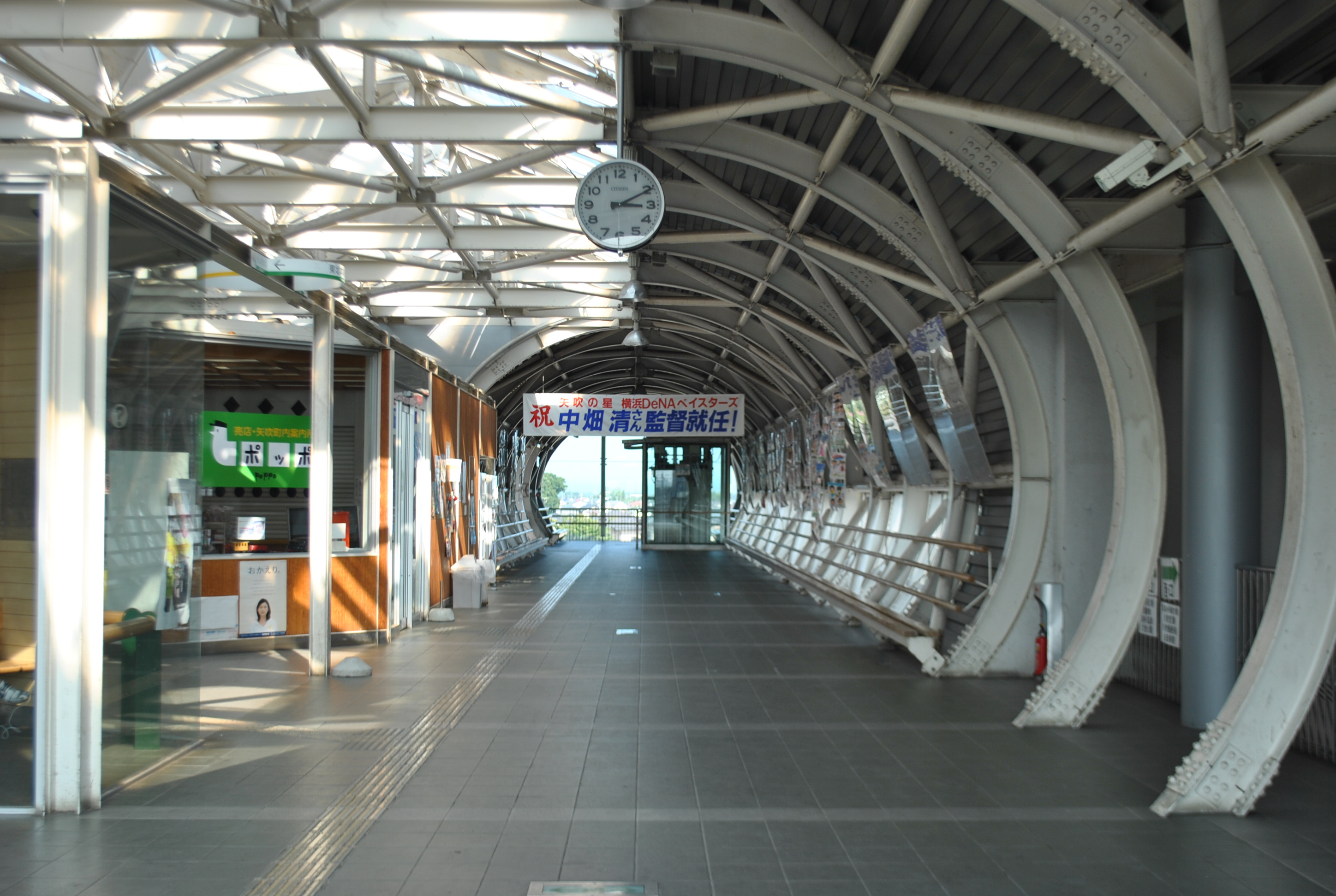 Yabuki Station in Yabuki Town, Fukushima Pref., Japan.